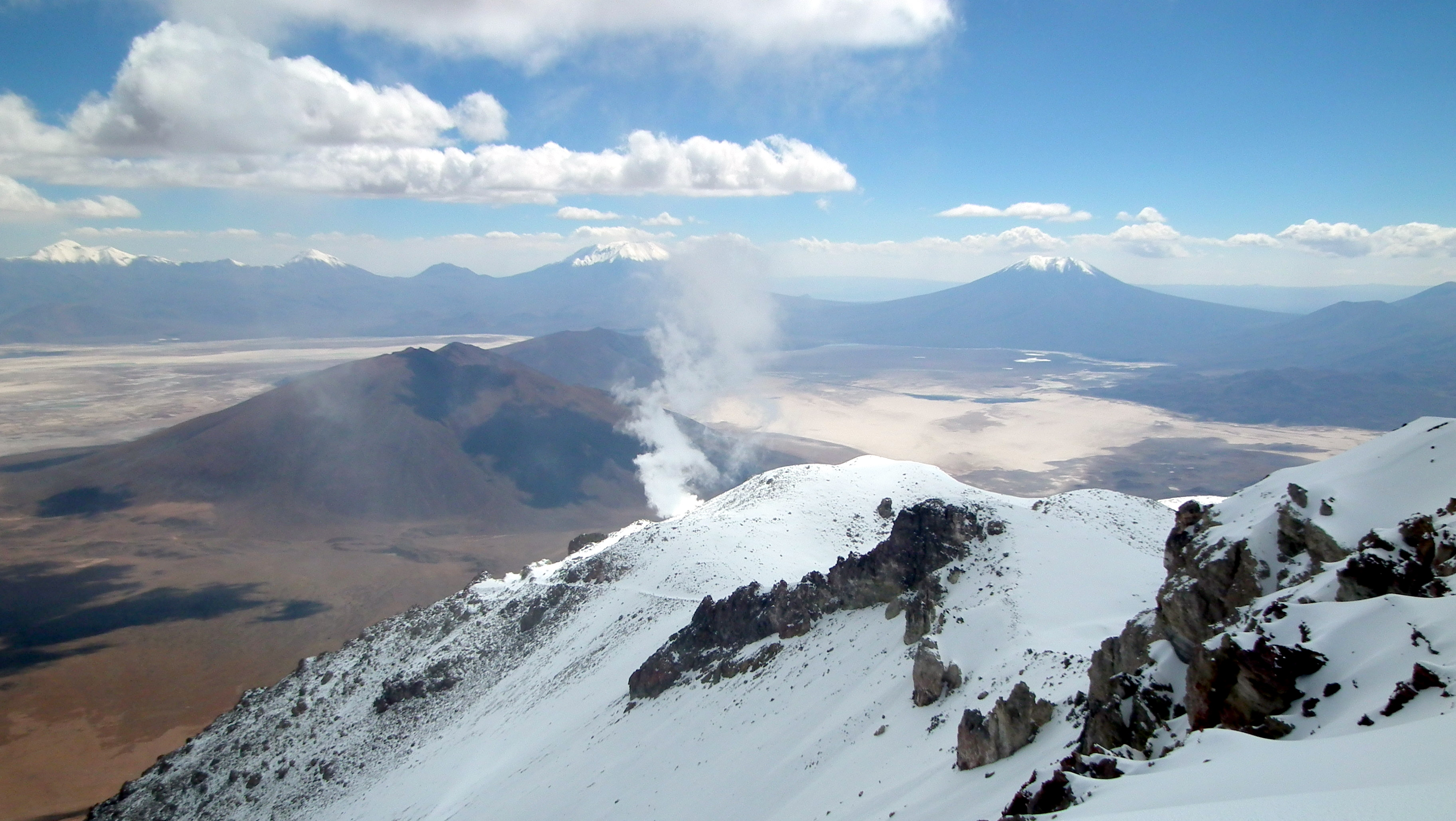 Summit of Ollagüe looking towards Chile and the fumarole.